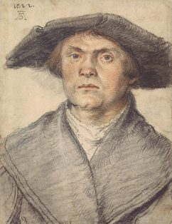 In the past regarded as a portrait of Matthias Grünewald by Albrecht Dürer, actually the image of a stranger by the austrian painter, draughtsman and printmaker Wolf Huber who's signature WH below the date 1522 has been removed and replaced by the fake monogram of Dürer in the 17th century